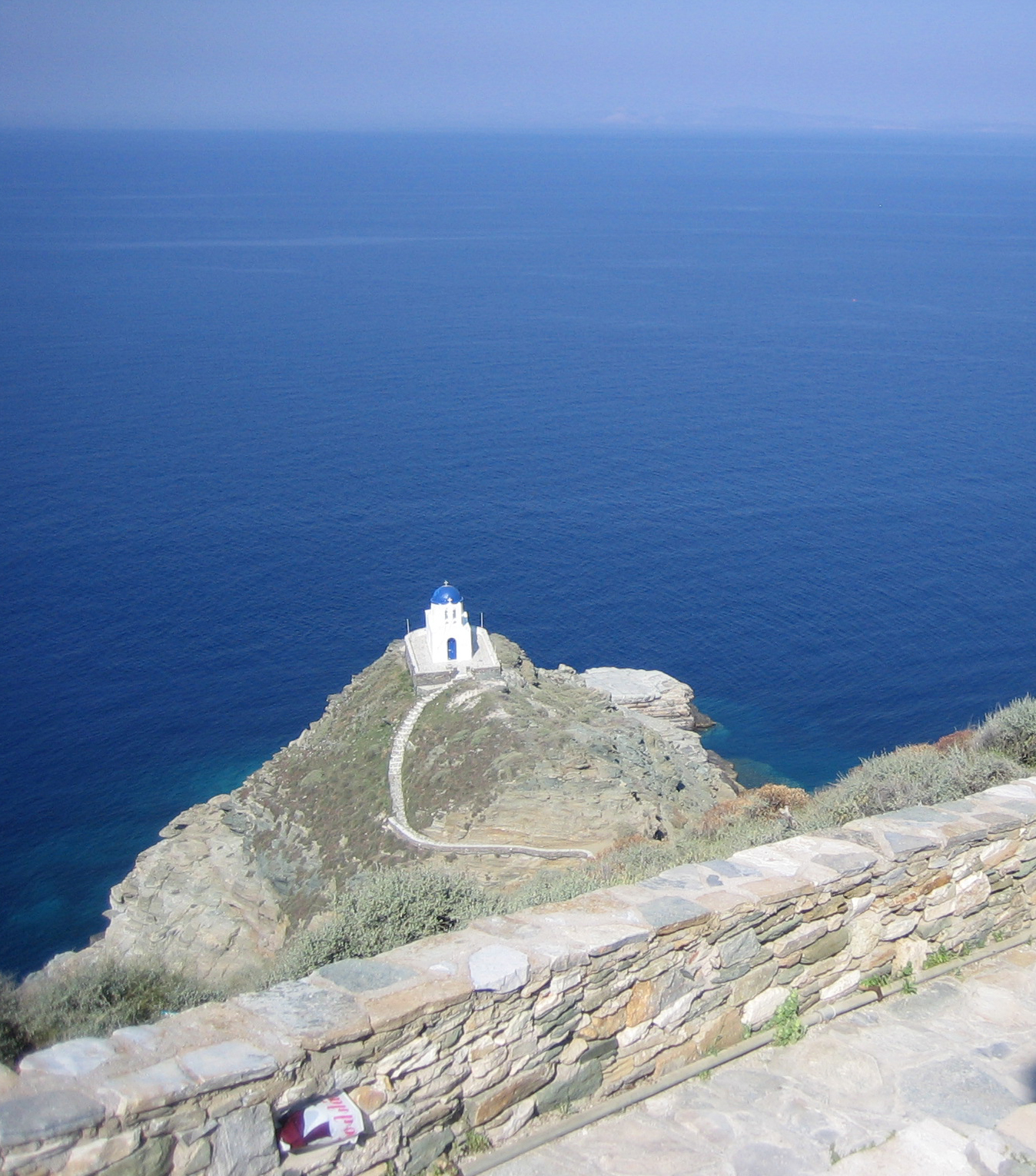 The cliffside chapel below Kastro on the island of Sifnos in the Aegean sea